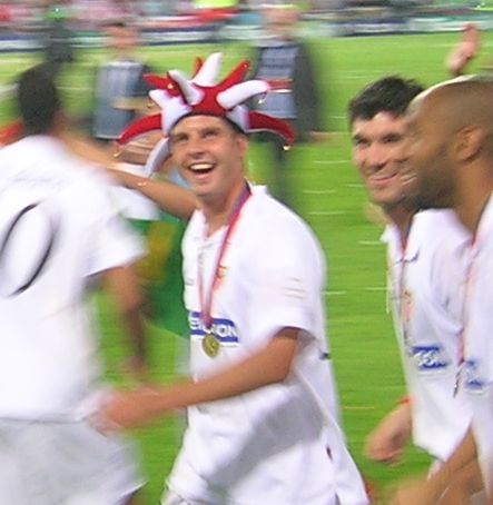 Kepa Blanco 2006 UEFA Final